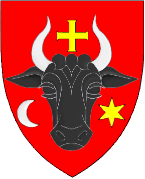 Coat of arms of Maramureş XIV century. -gules, aurochs head caboshed in sable, horned argent, cross in or at honor point, dexter base crescendent in argent, sinister base six points mullet in or.